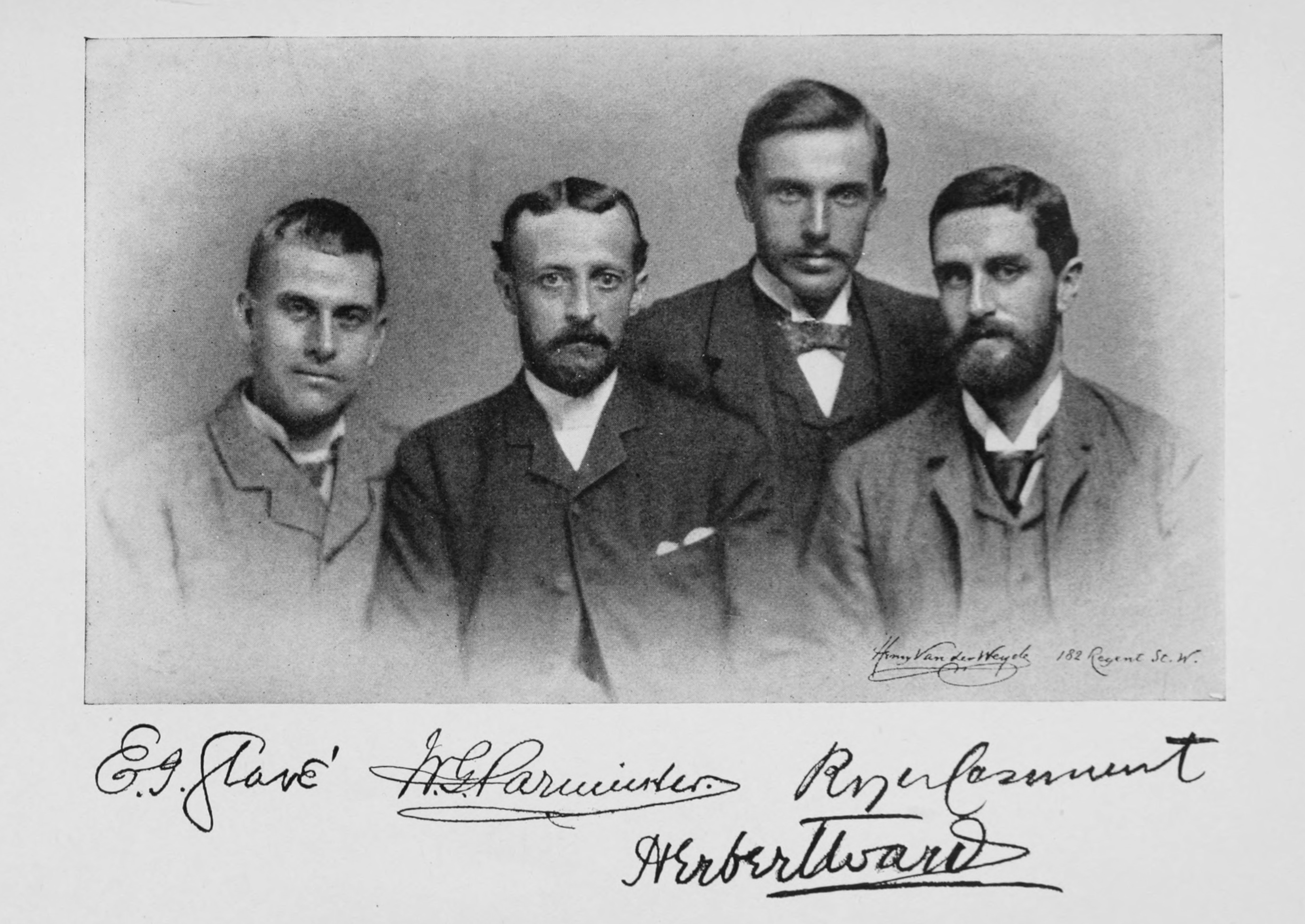 From left to right: E. J. Glave, W. G. Parminter, Herbert Ward and Roger Casement Title: A voice from the Congo : comprising stories, anecdotes, and descriptive notes Year: 1910 (1910s) Authors: Ward, Herbert, 1863-1919 Subjects: Ward, Herbert, 1863-1919 Africa, Central -- Description and travel Africa, Central -- Social life and customs Publisher: New York : Charles Scribner's Sons